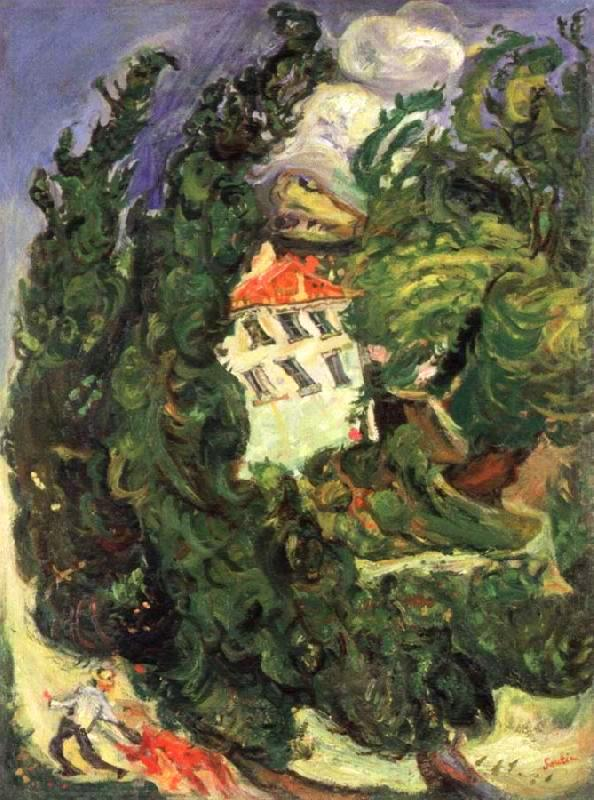 Landscape with a red donkey